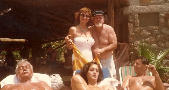 standing: Didi Menosi (right) & Rachel Haramati. sitting: Michael Strauss (right), his daughter Ofra Strauss & Naaman Shkolnik